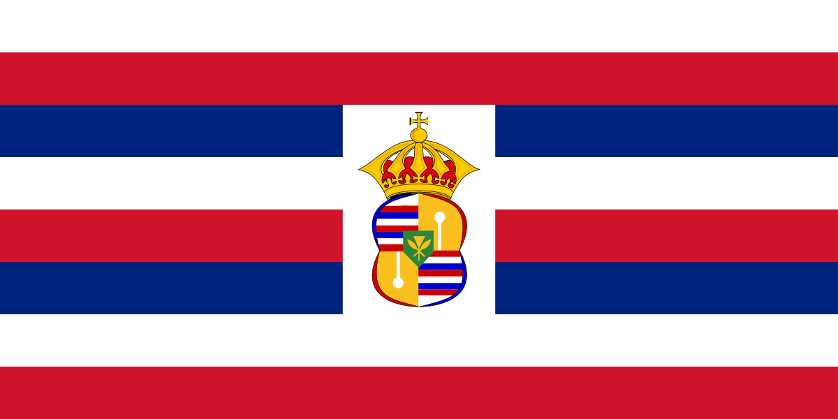 Flag of the Kingdom of Hawaii (1795 - 1893) (doubtful) Hawaiʻi: Ka hae Aupuni Mōʻī o Hawaiʻi (1795 - 1893) (kanalua)